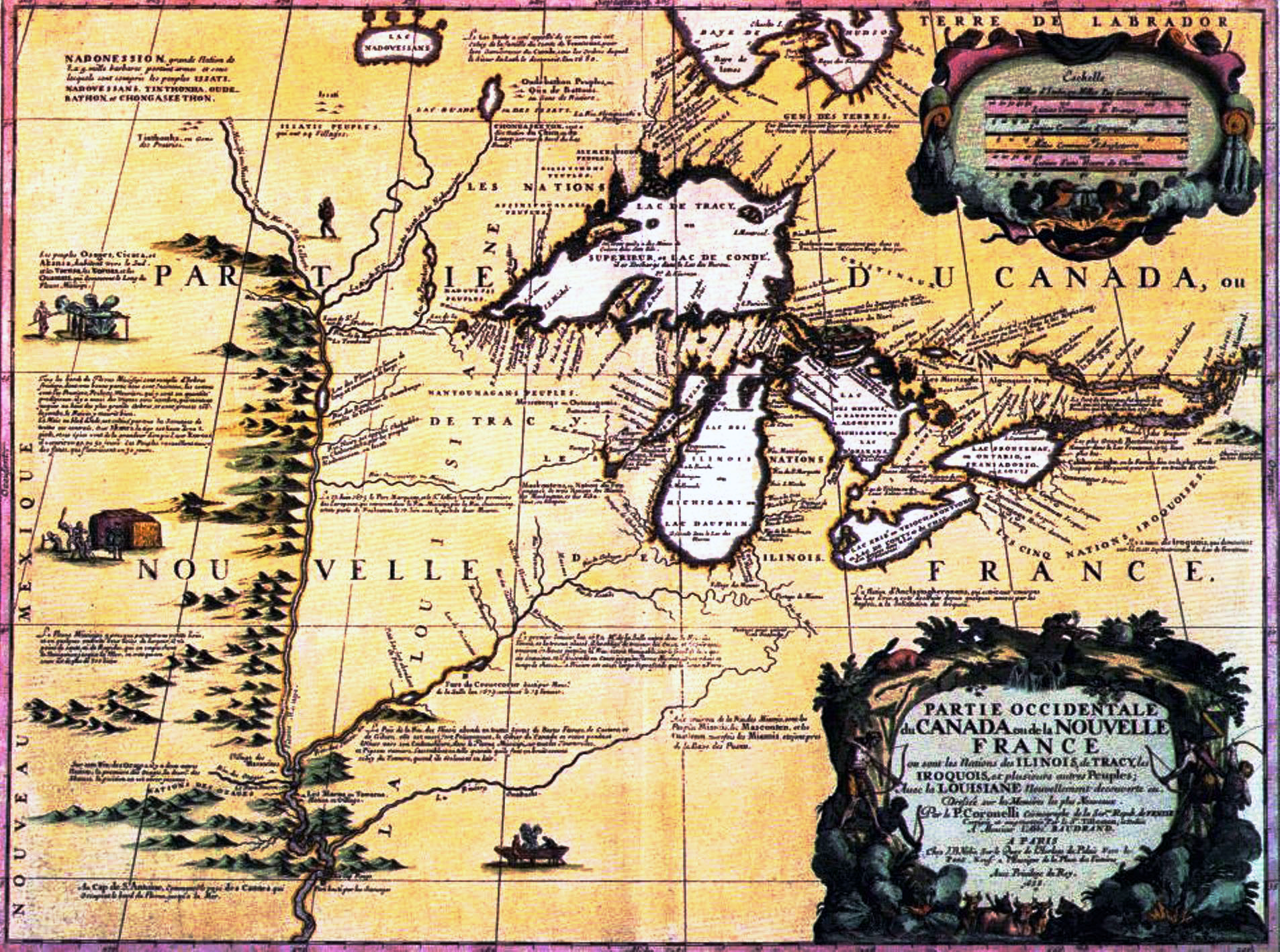 Western New France, 1688